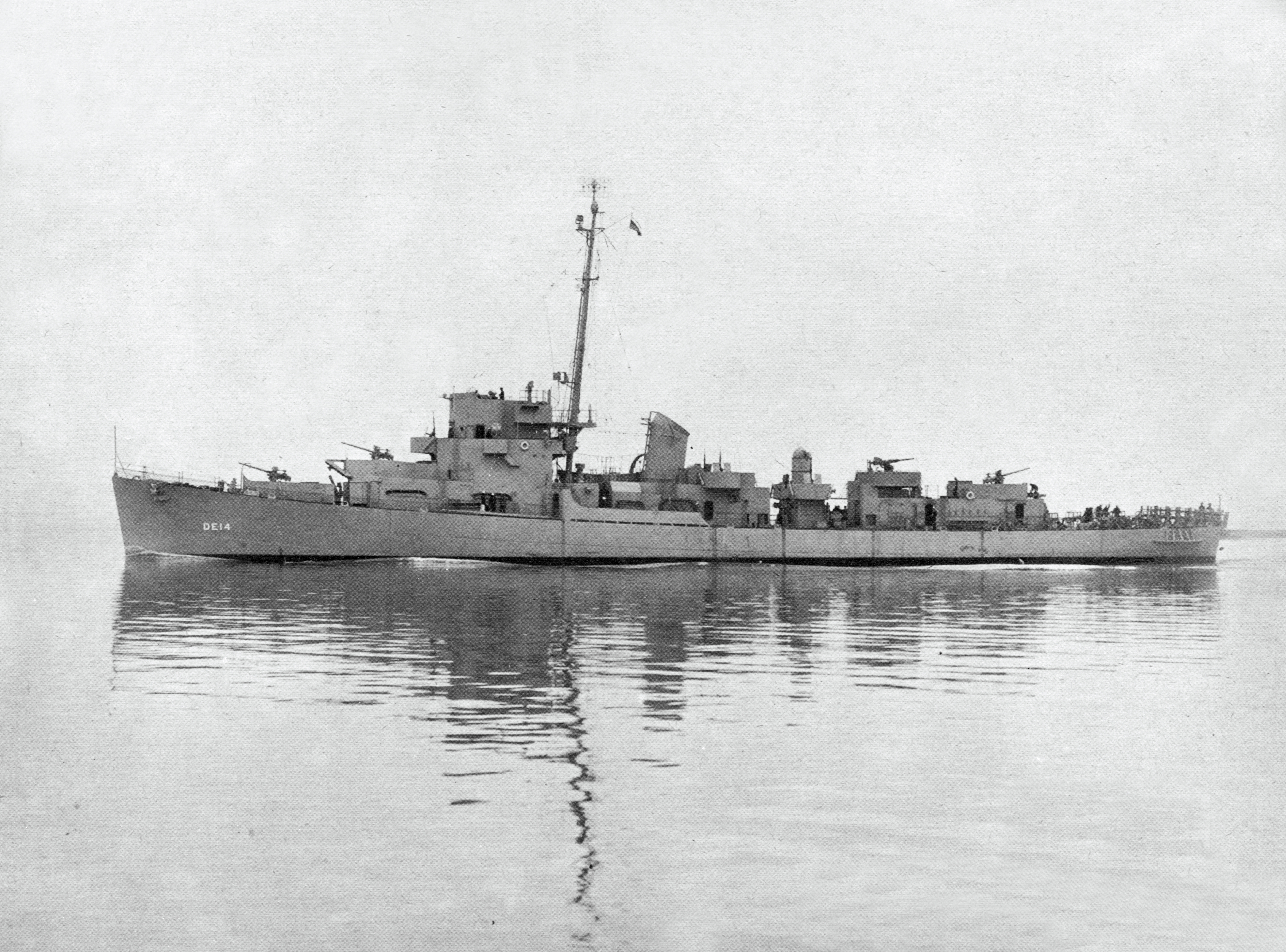 The U.S. Navy destroyer escort USS Doherty (DE-14) underway off the Mare Island Naval Shipyard, California (USA), on 23 February 1943.